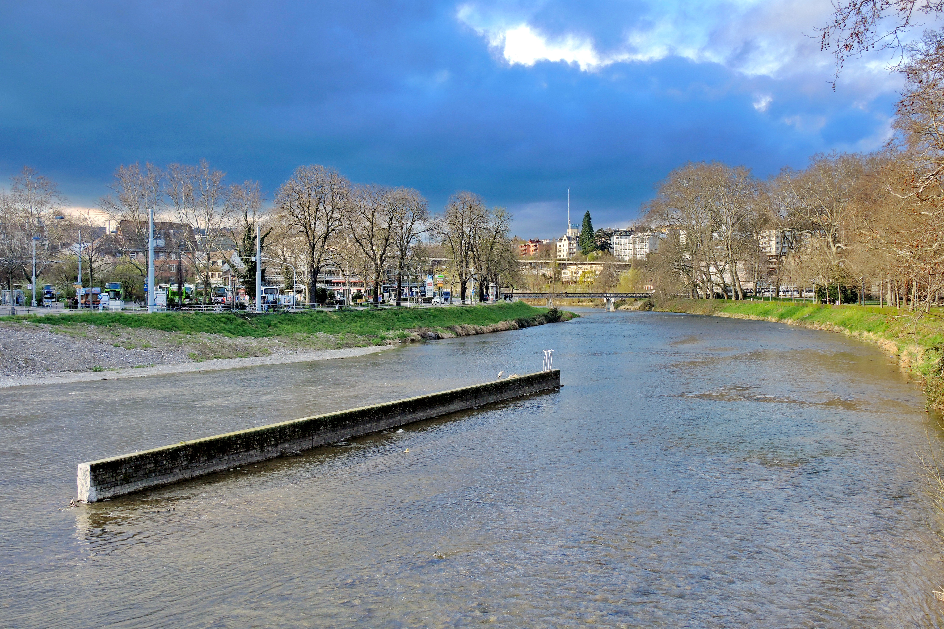 Zürich-Unterstrass-Höngg respectively Gewerbeschule at the confluence of the Sihl river and Schanzengraben moat at Platzspitz park in Zürich (Switzerland) as seen from Sihlquai